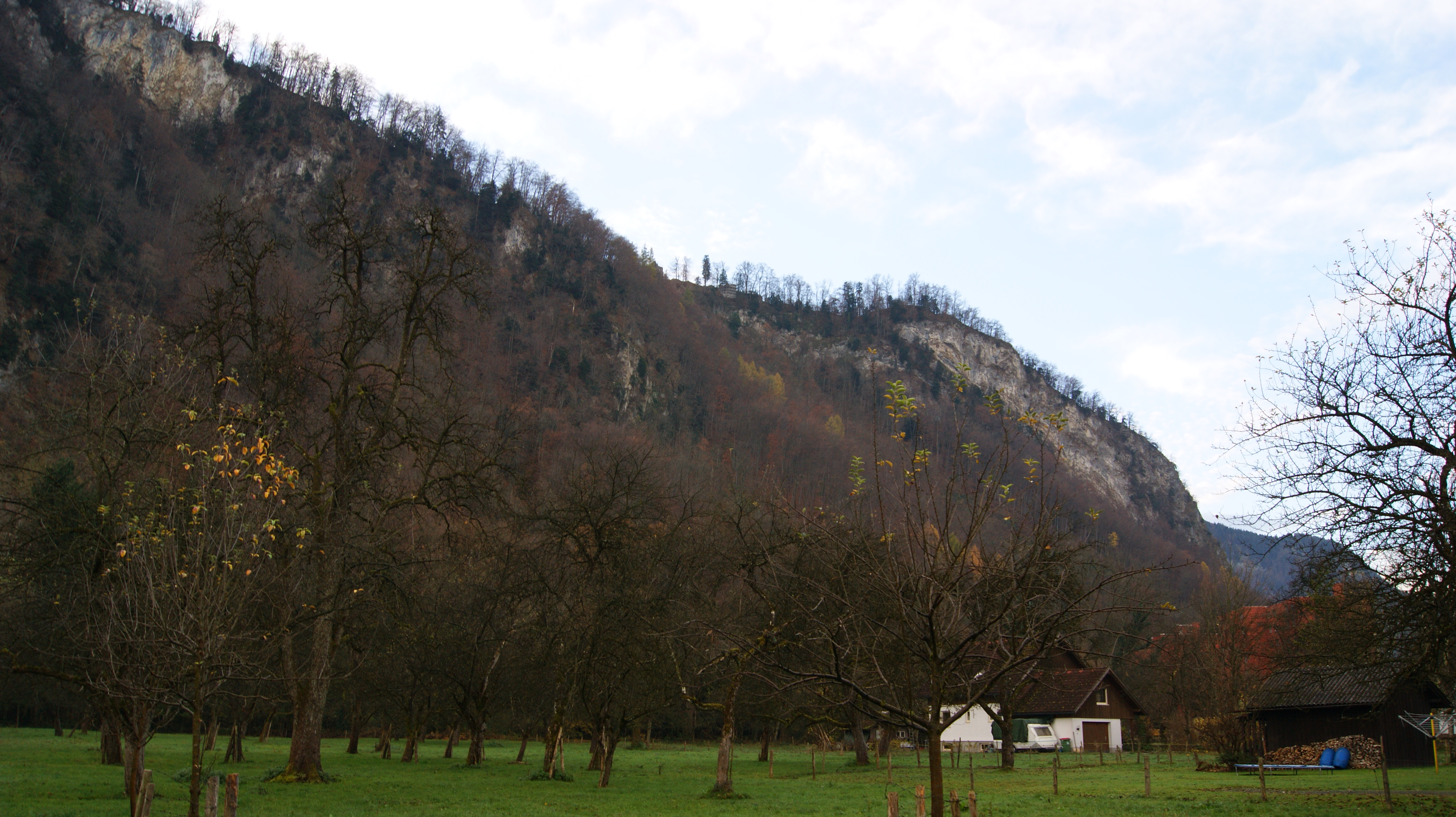 Schlossberg (740 masl), a Part of the Bregenz Forest Mountains, in Hohenems, Vorarlberg, Austria.